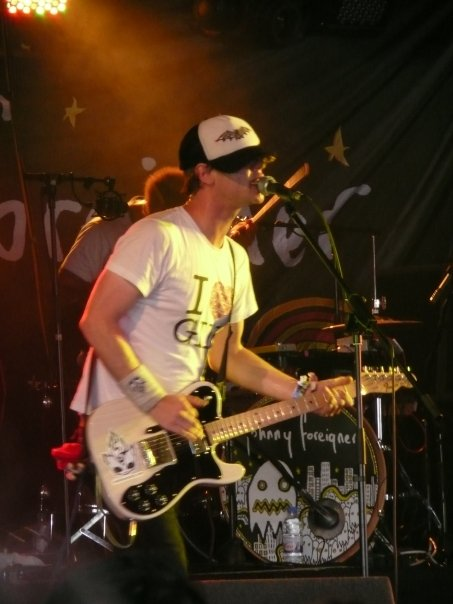 Johnny Foreigner live at the Reading Festival 2008